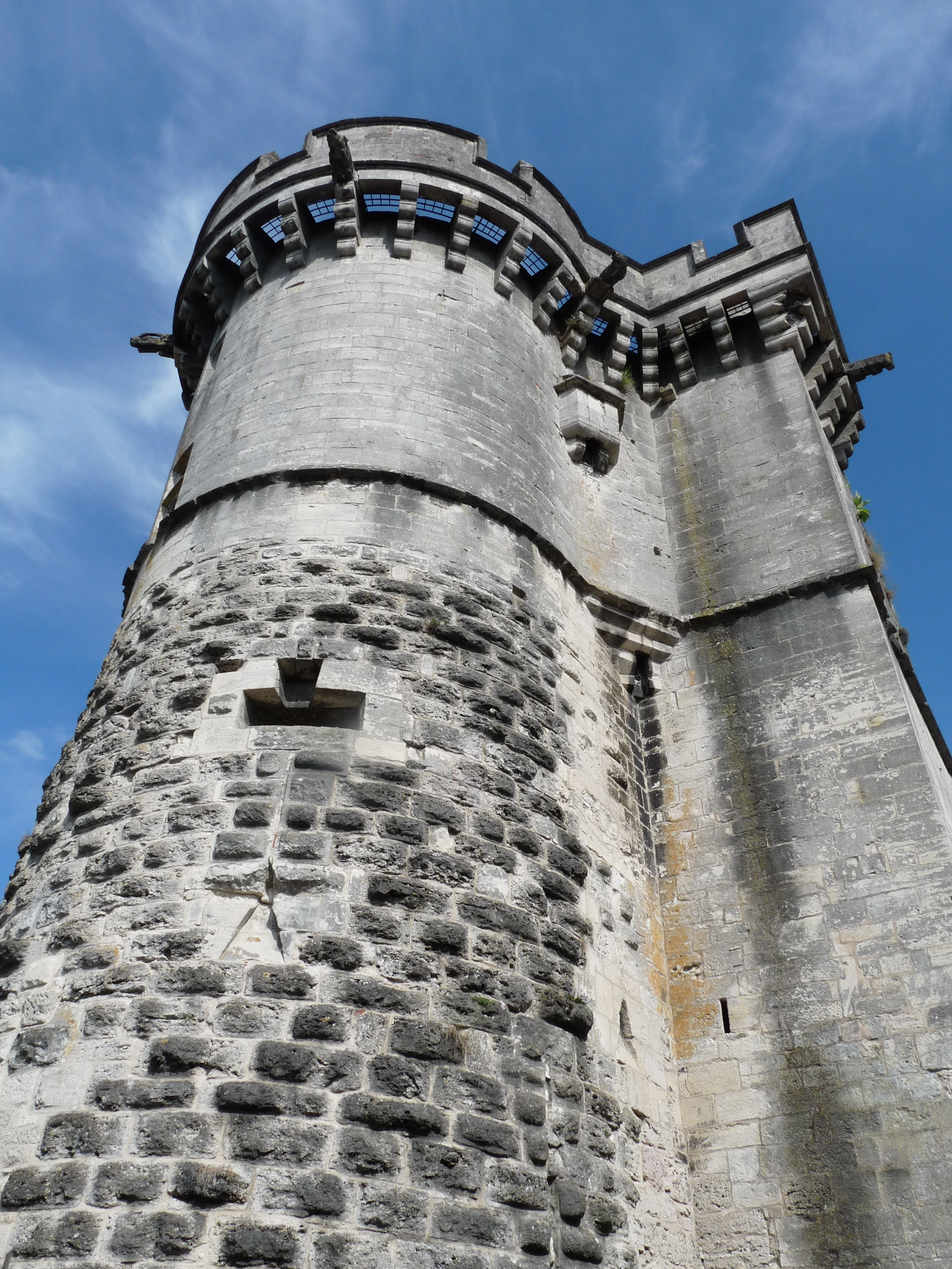 Valeran Tower in Ligny-en-Barrois (Meuse)